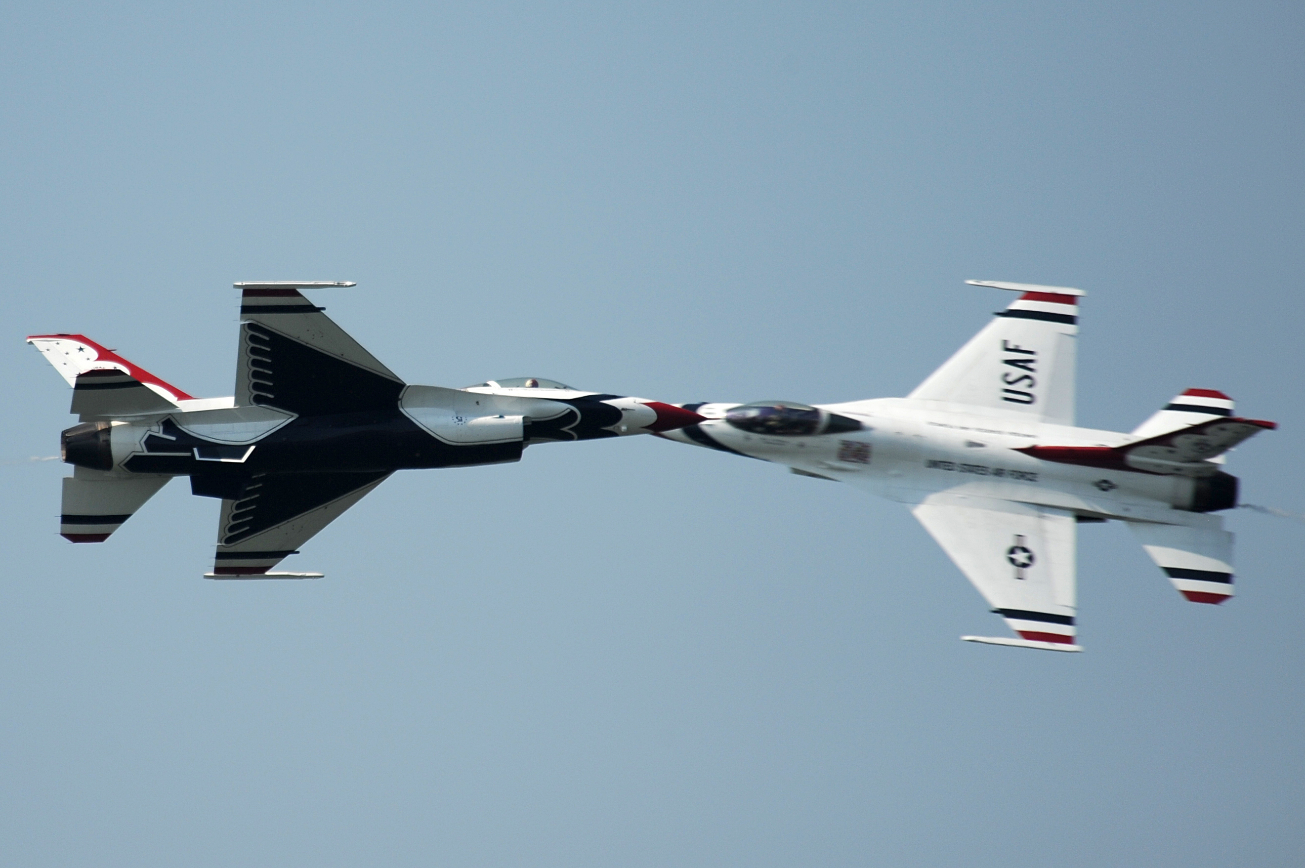 U.S. Air Force Majs. Aaron Jelinek, Thunderbird 5, lead solo, and J.R. Williams, Thunderbird 6, oppposing solo, perform the Opposing Knife Edge Pass during the Cleveland National Air Show, Cleveland, Ohio, Sept. 3, 2011. Thunderbirds - U.S. Air Force Air Demonstration Squadron Photo by Staff Sgt. Larry E. Reid Jr. Date Taken:09.03.2011 Location:CLEVELAND, OH, US Related Photos